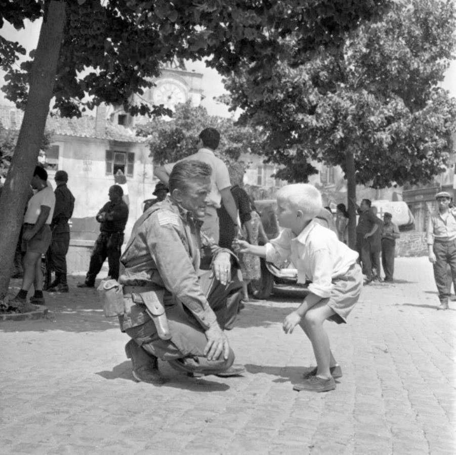 Tel aviv, Architecture of Israel